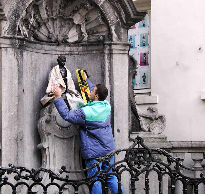 Manneken Pis being dressed up by students